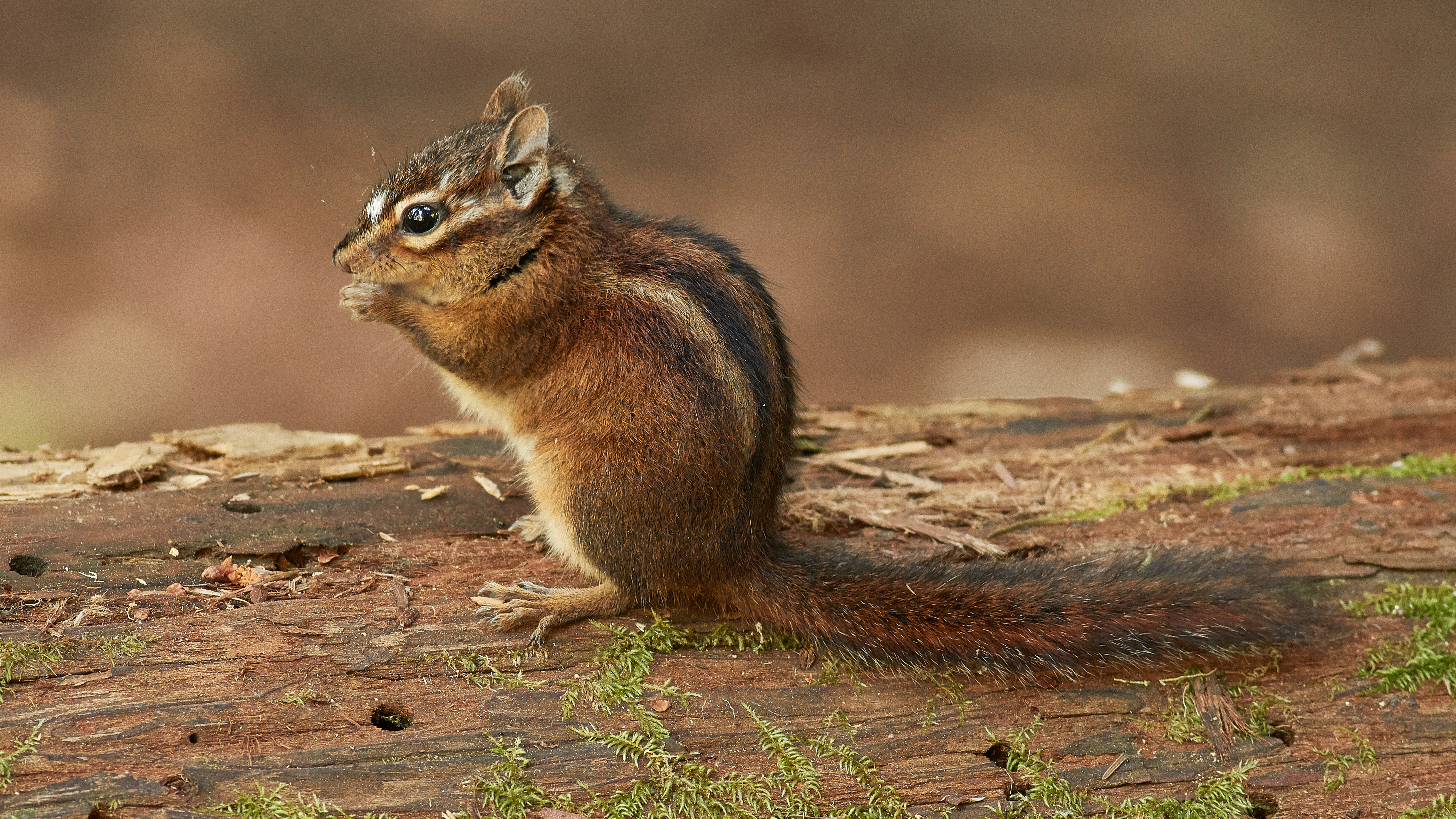 Sonoma chipmunk (Tamias sonomae) at Samuel P. Taylor State Park